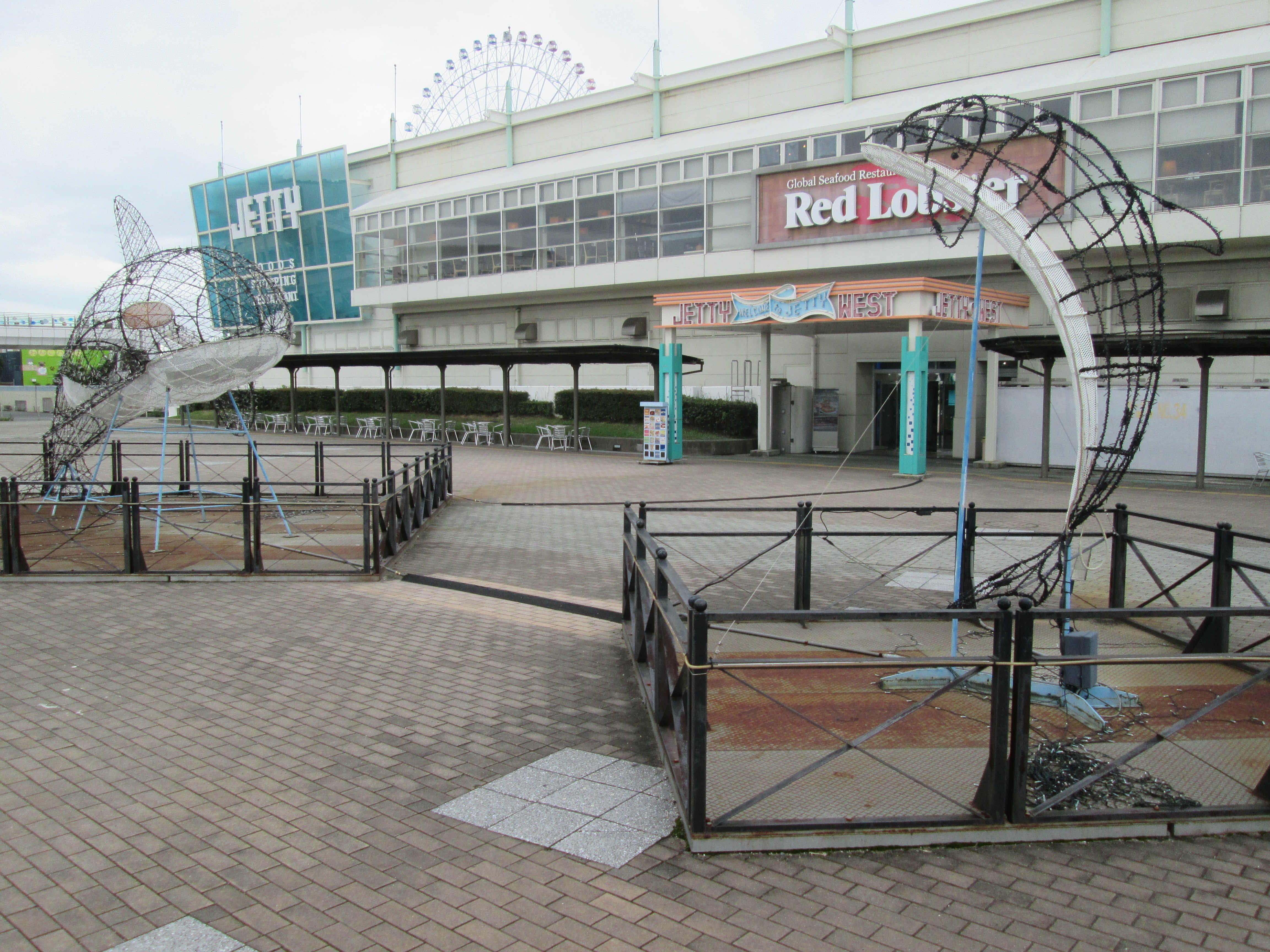 Dolphin and whale art (with lights) near the Port of Nagoya Public Aquarium. Jetty and Red Lobster shown in the background.